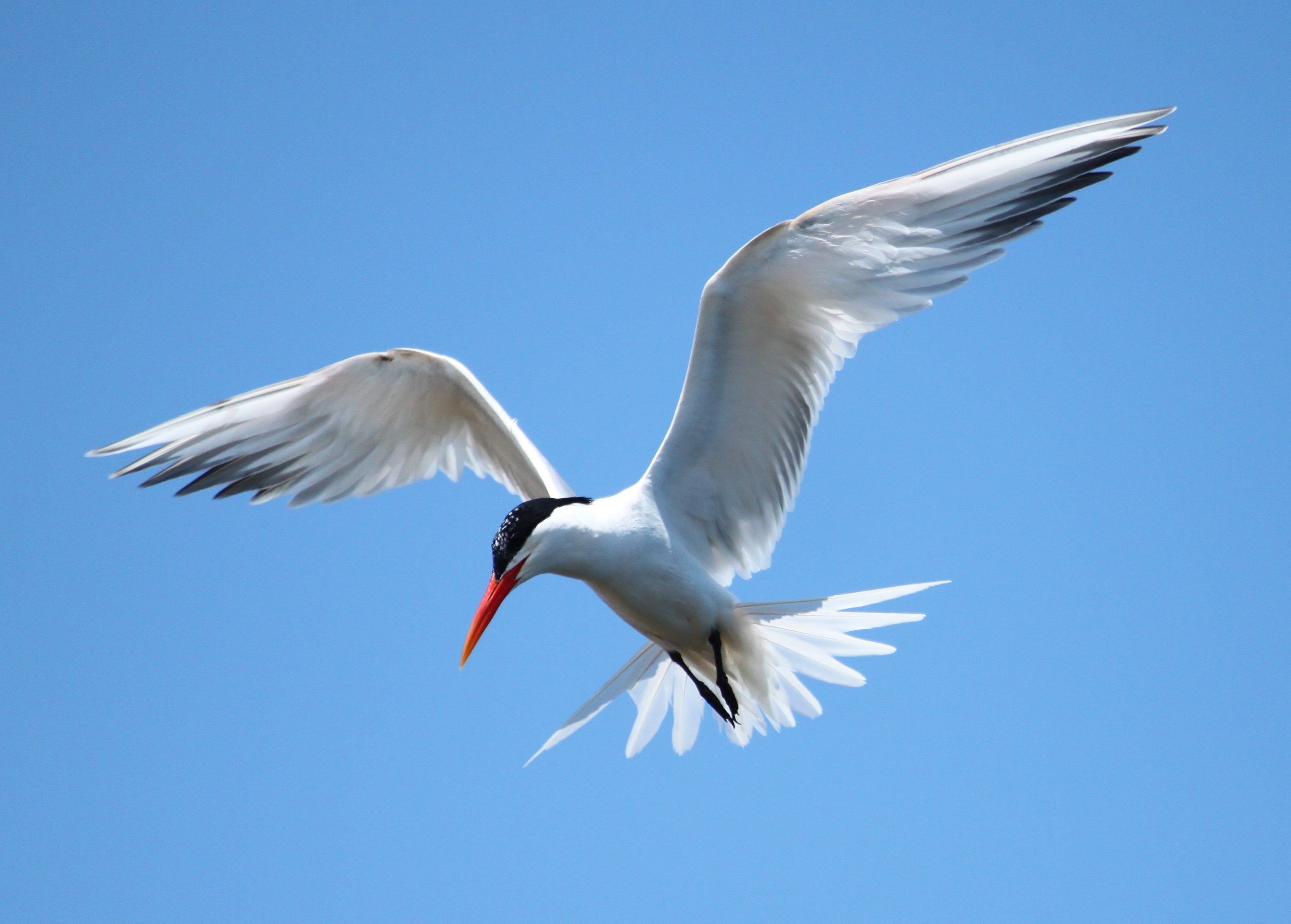 An Elegant Tern on the wing at Bolsa Chica Reserve in Huntington Beach, California